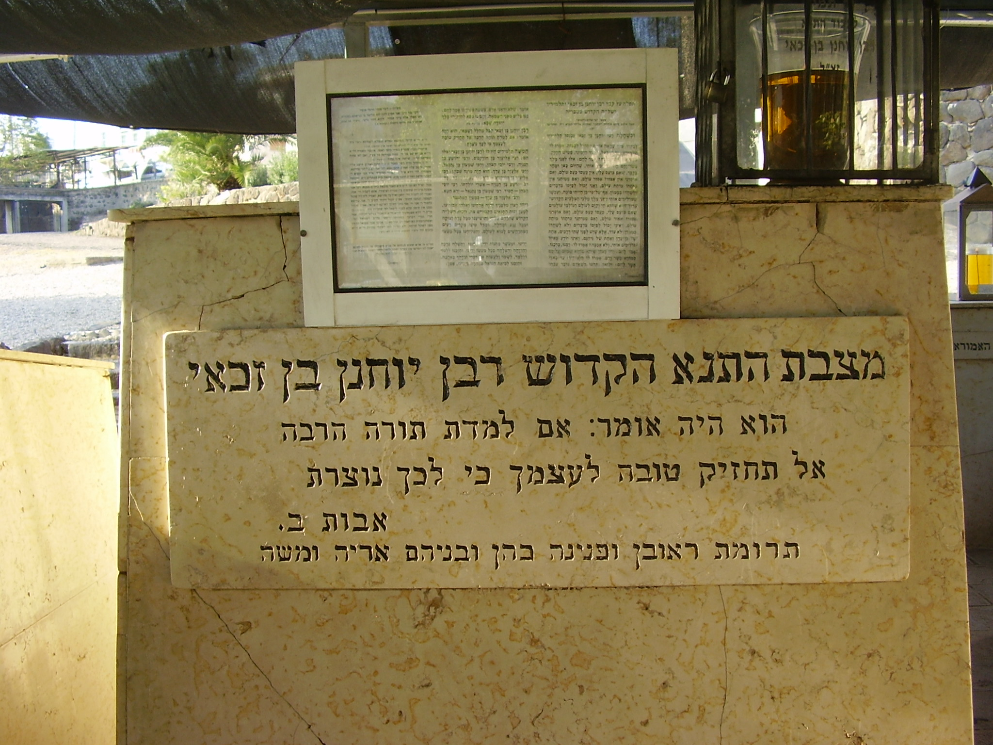 tomb of rabbi yohanan ben zakai in tiberias